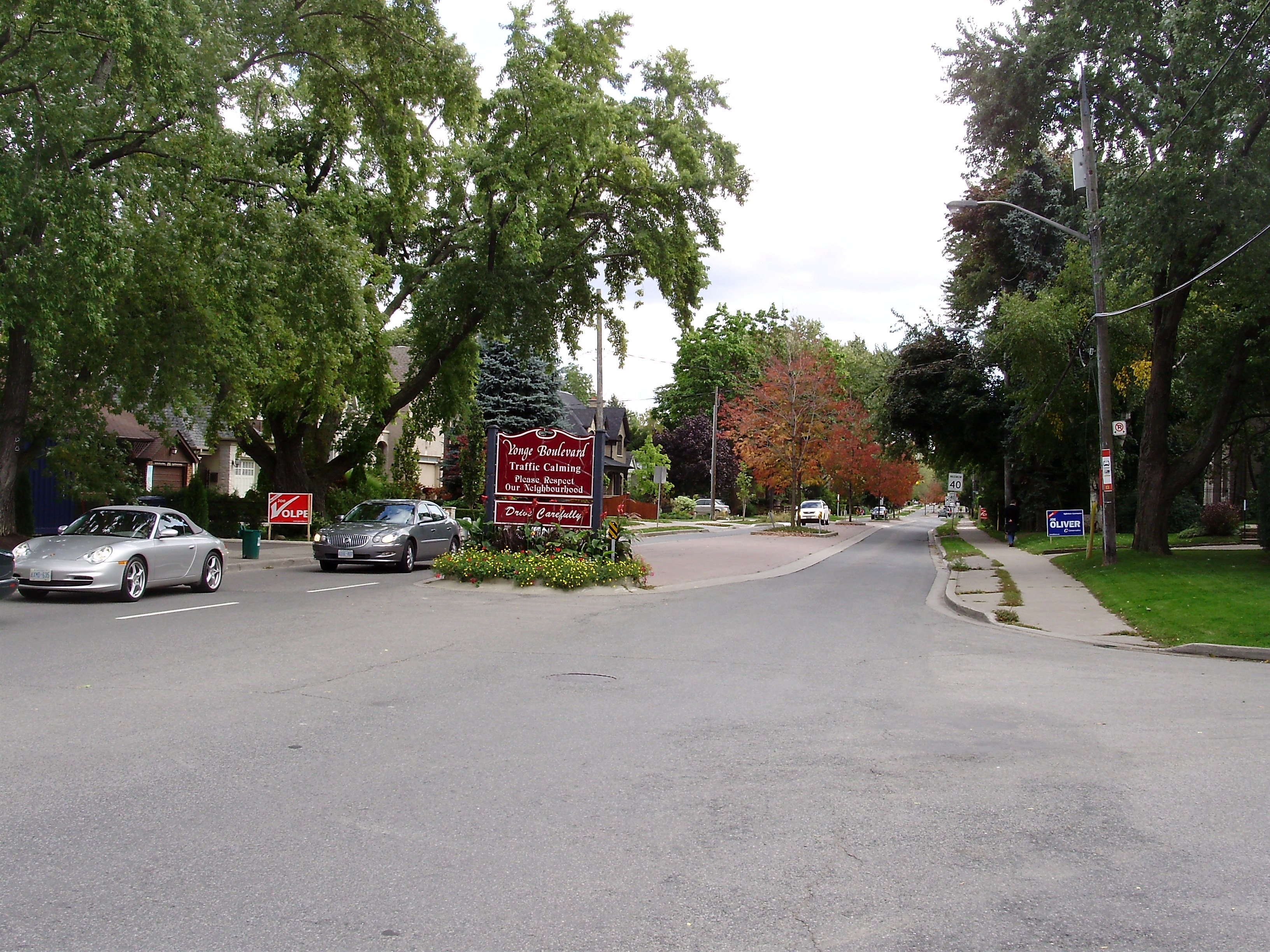 Traffic calming initiatives strive to protect domestic tranquility along Yonge Boulevard in the neighbourhood of Bedford Park-Nortown in Toronto, Ontario, Canada. The lawn signs pertain to the 40th Canadian General Election.